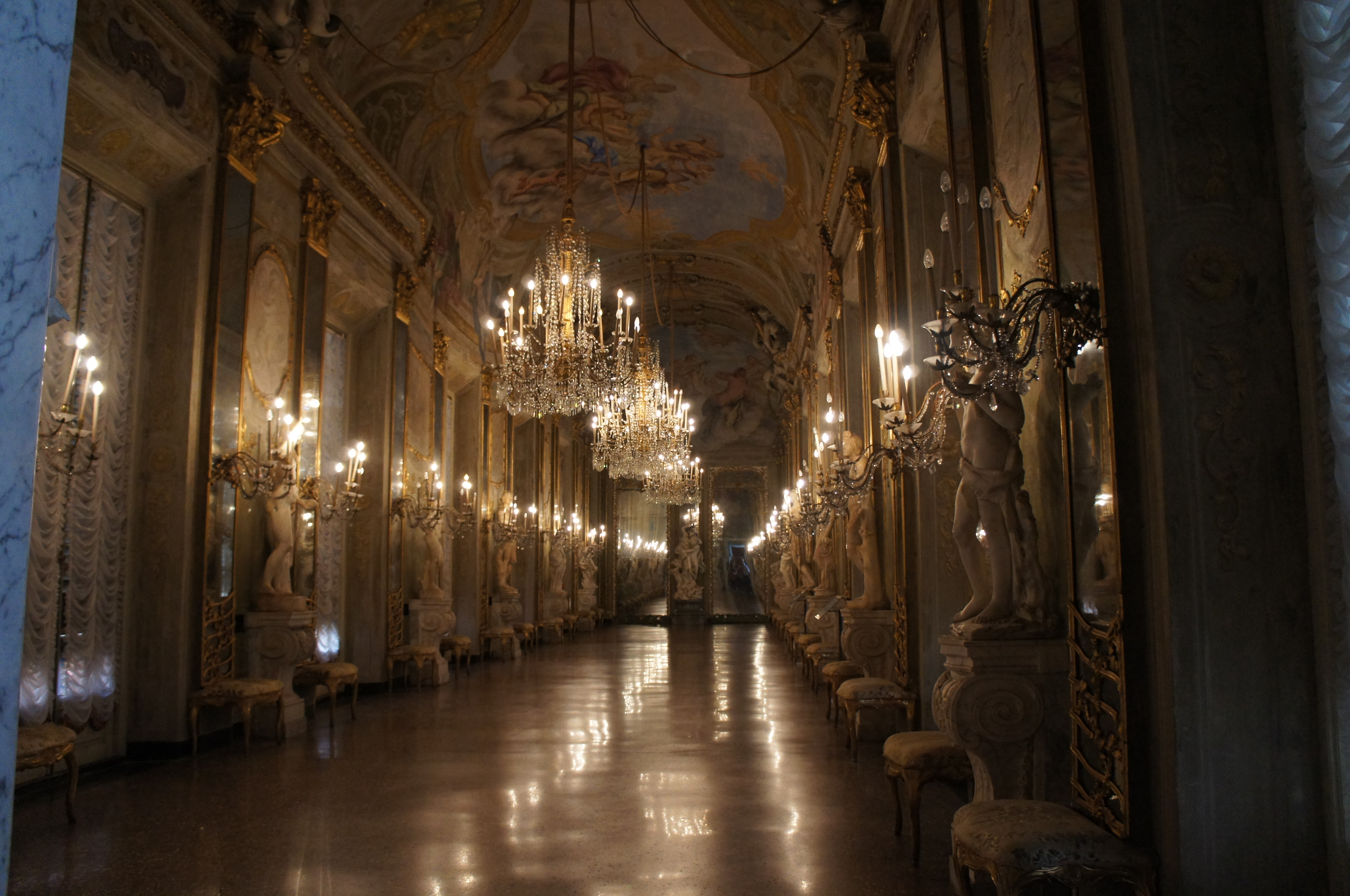 Royal Palace, Genoa